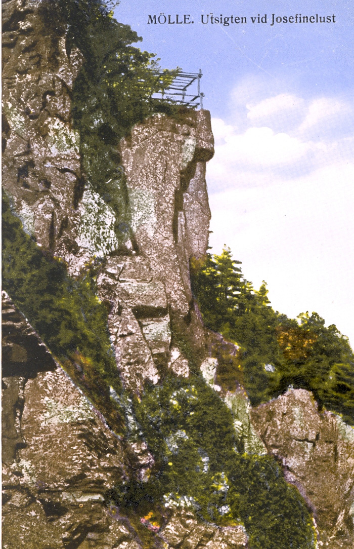 The outlook at Josefinelust, Kullaberg, Sweden